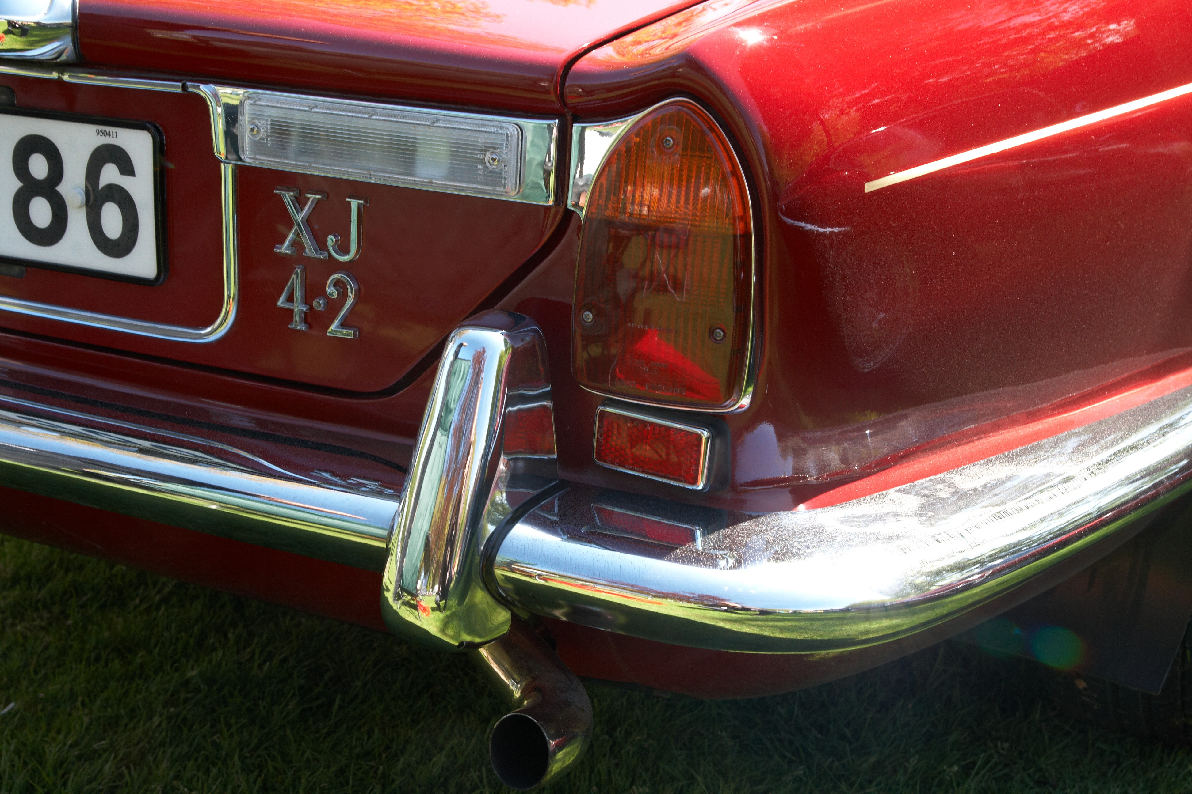 The rear right end of a 1976 Jaguar XJ 4.2. Picture taken at the 2009 Sofiero Classic car show in Helsingborg, Sweden.